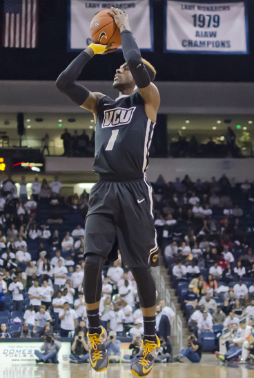 JeQuan Lewis of VCU